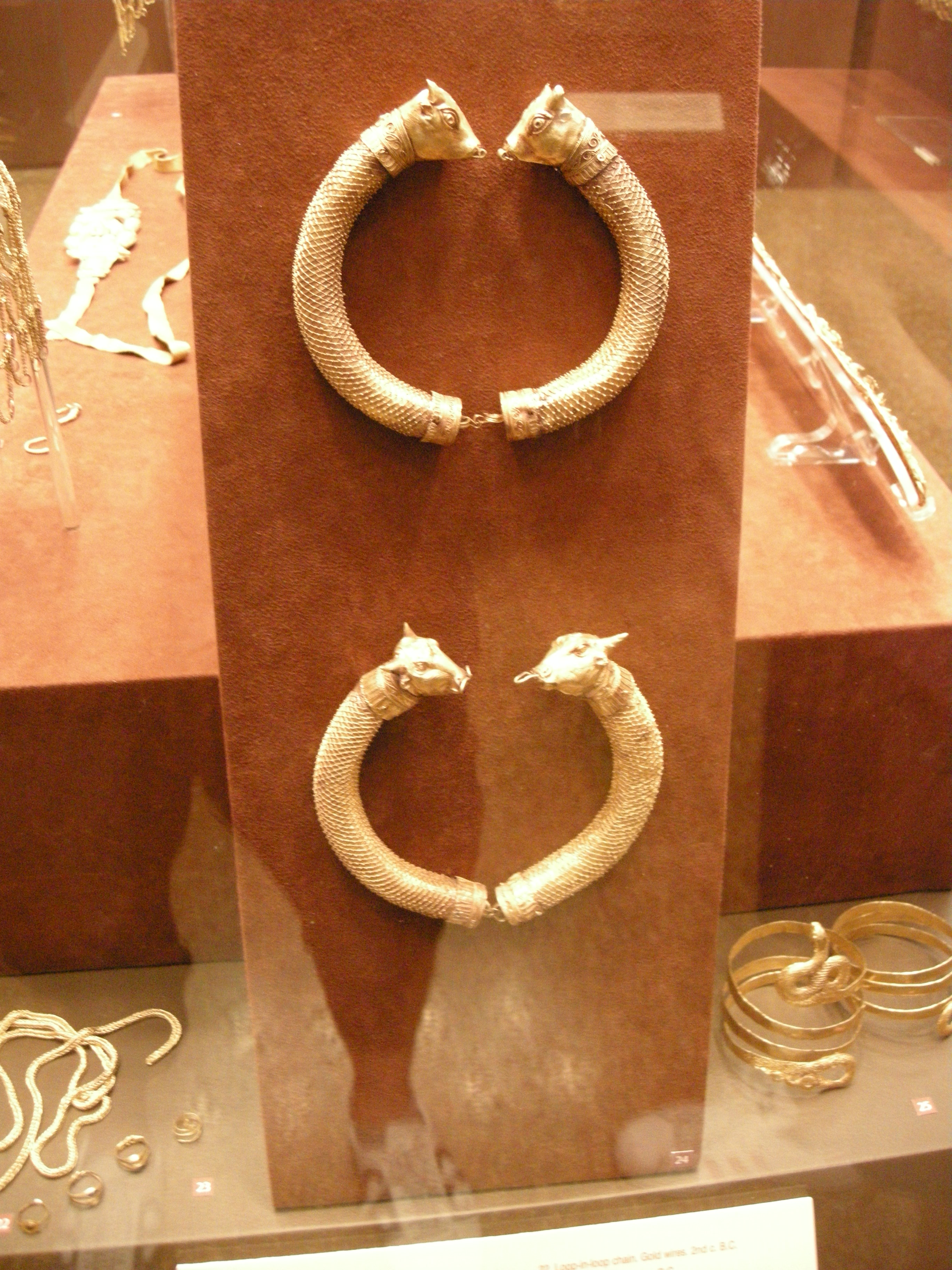 Gold in NAMA